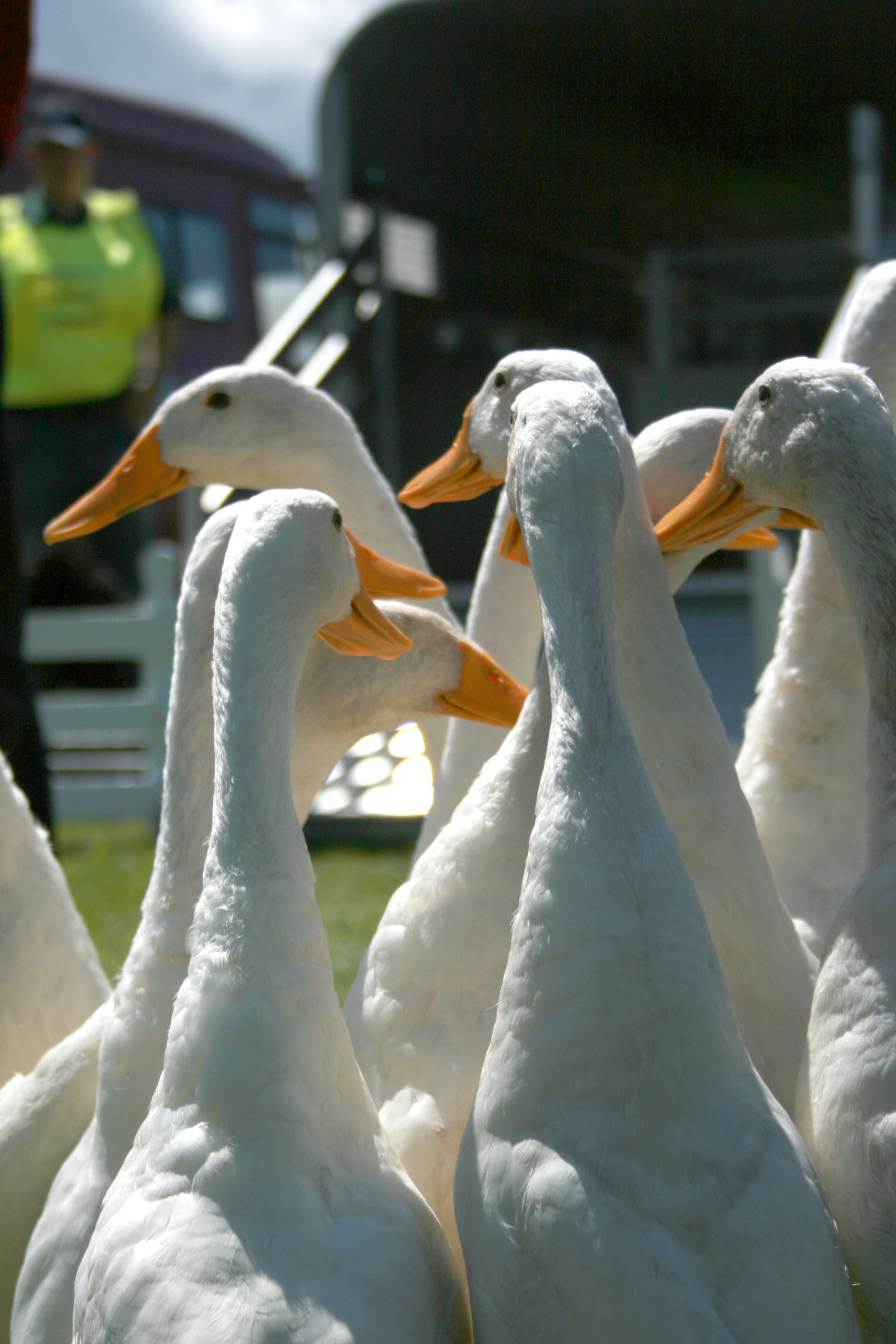 Indian Runner Ducks at the 31st Wirral Show